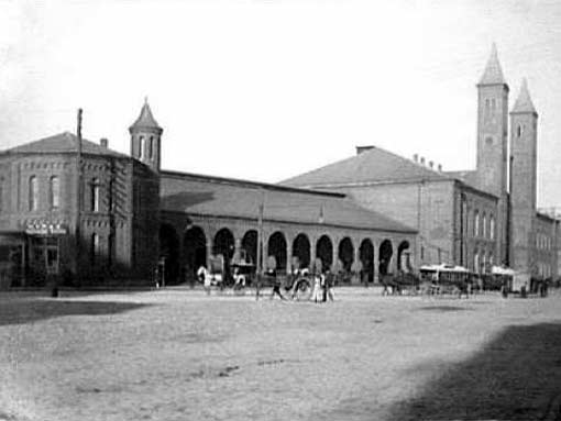 This is an image of the original Union Station in Providence, R.I., designed by Thomas Alexander Tefft in the Romanesque style. It opened in 1847 and was destroyed by fire in 1896. The source page shows it as being from the Historic American Buildings Survey (HABS), but it is not part of the HABS collection for Providence Union Station found on the site of the Library of Congress Prints and Photographs Division found at [1] . Those images are of the successor station.